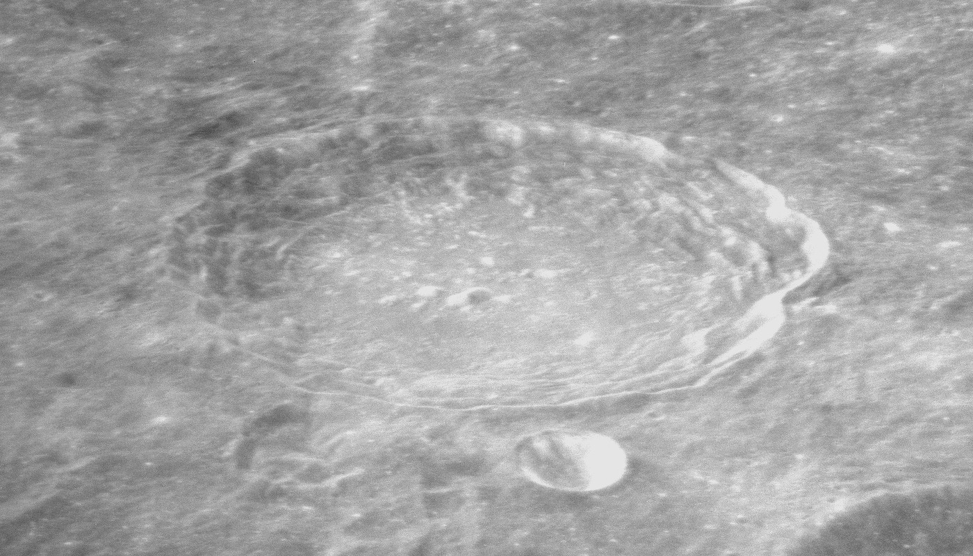 Oblique view of Geminus crater, on the moon. Taken by Apollo 16 panoramic camera during Trans-Earth Injection. Brightness and contrast adjusted in GIMP.